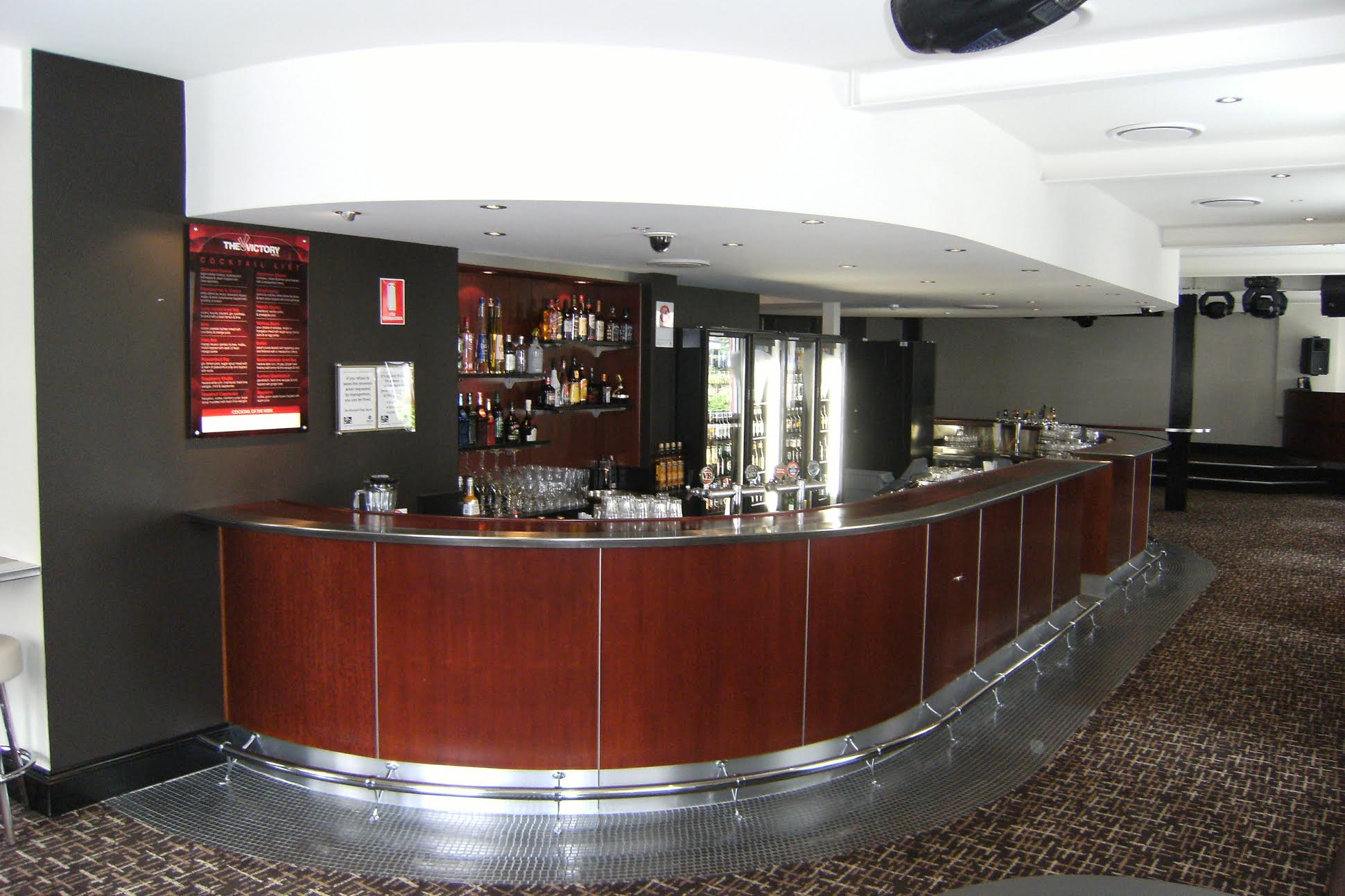 Victory Hotel's front bar